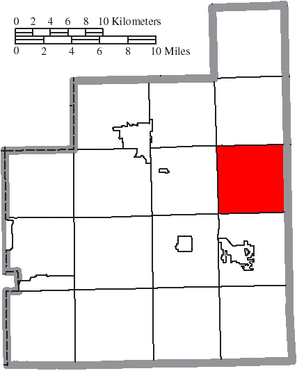 Map of the municipal and township boundaries of Geauga County, Ohio, United States, as of the 2000 census, with the location of Huntsburg Township highlighted. Township borders are shown only in unincorporated areas in order to differentiate incorporated and unincorporated areas more clearly.